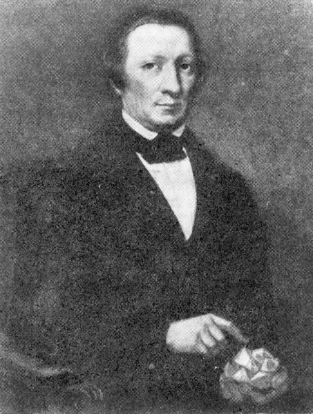 Gregor Wolny